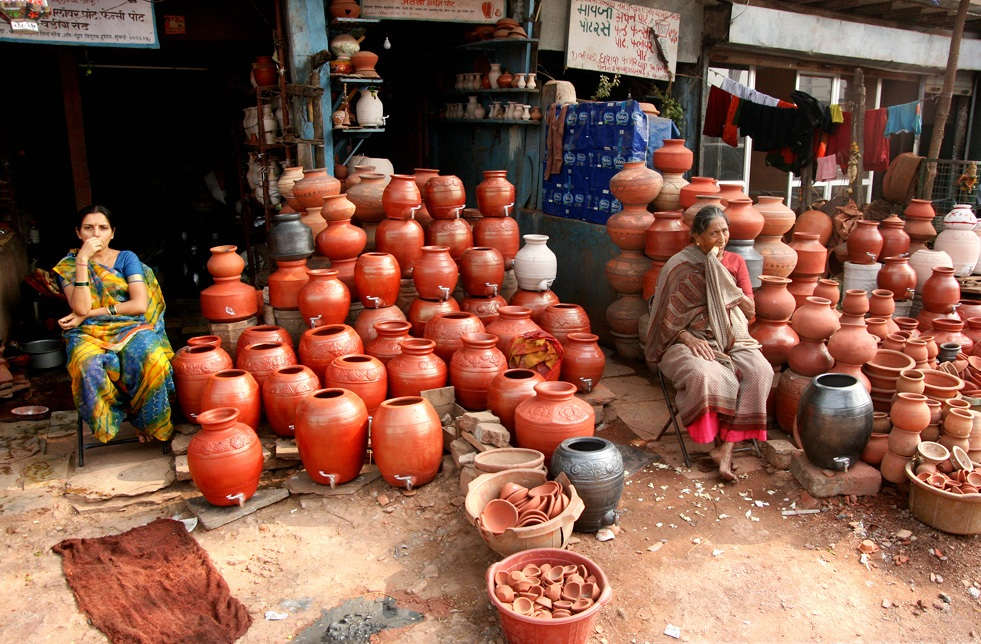 Uploaded to wiki by user:nikkul